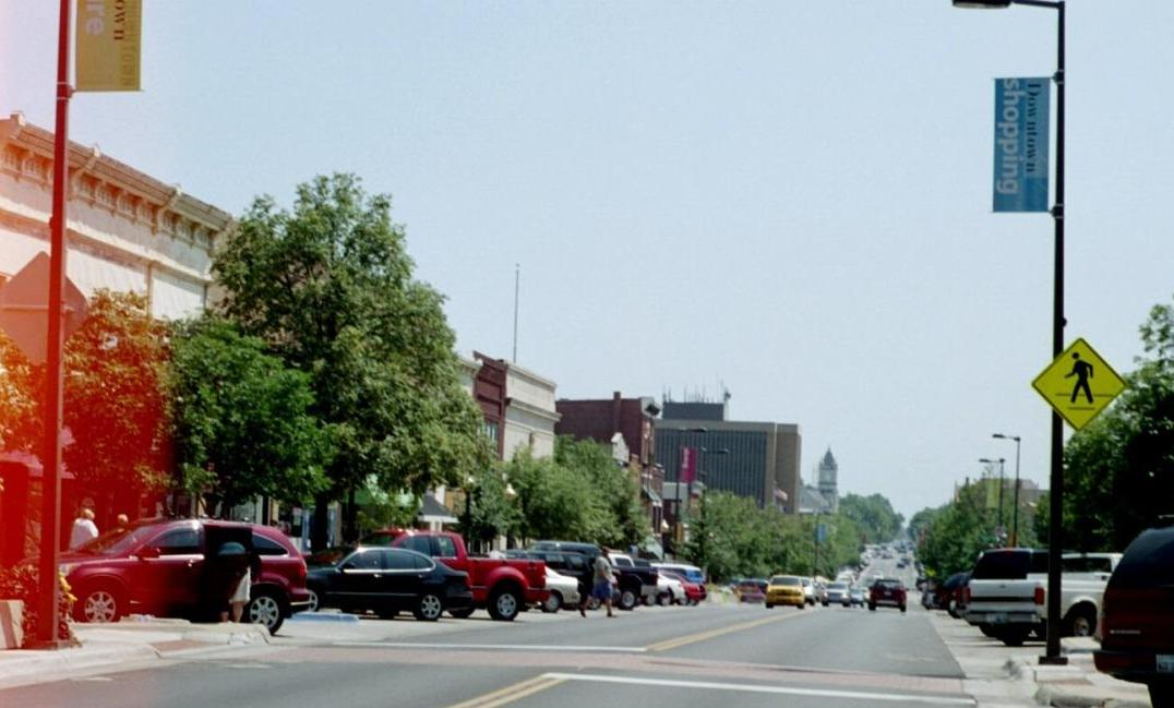 Downtown Lawrence, Kansas, Southview on Massachusetts Streets from 8th Street. In center background Old Douglas County Courthouse